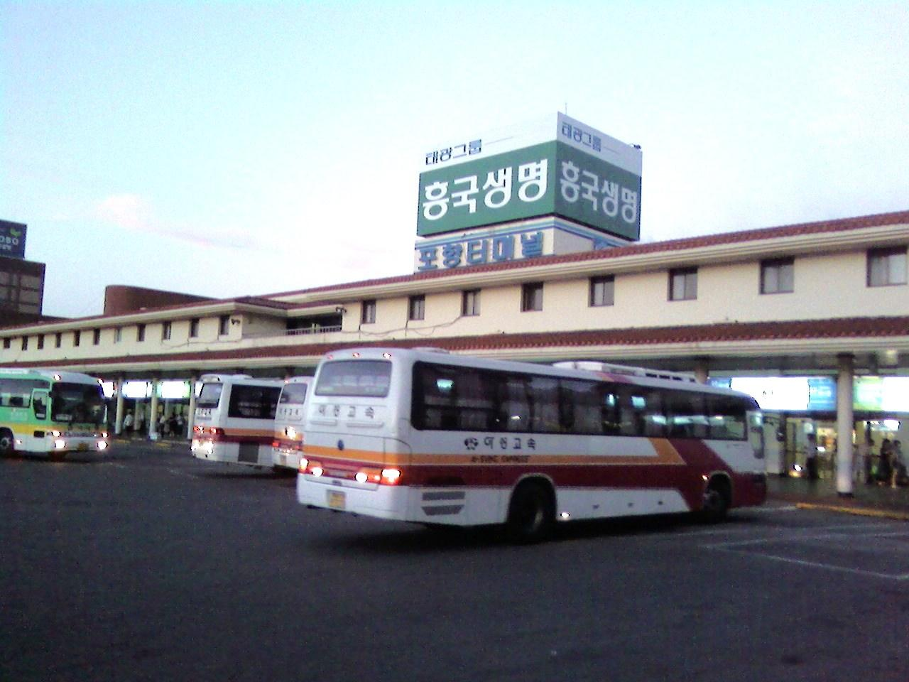 Pohang Terminal